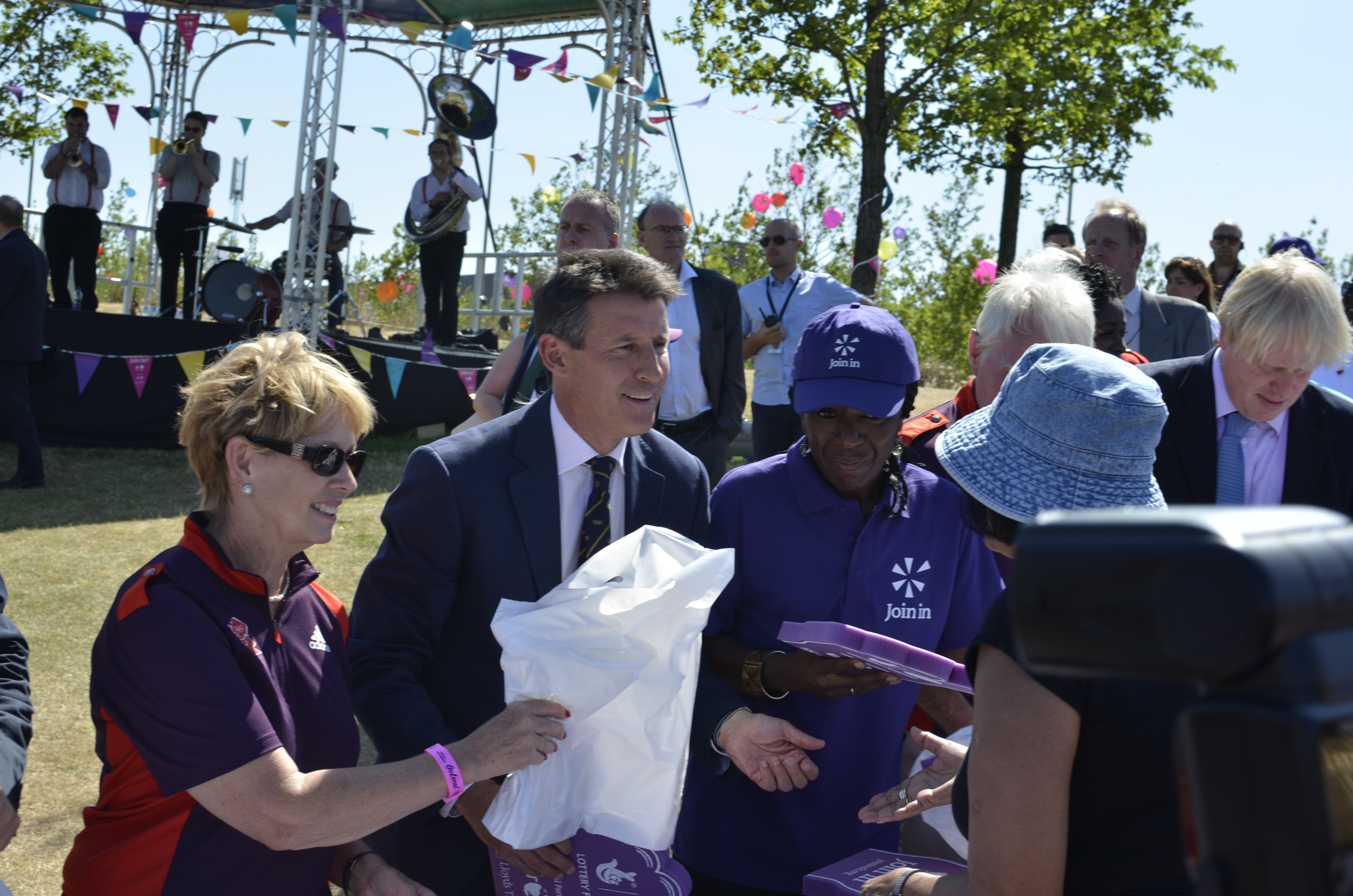 Sebastien Coe at the Queen Elizabeth Olympic Park in July 2013.